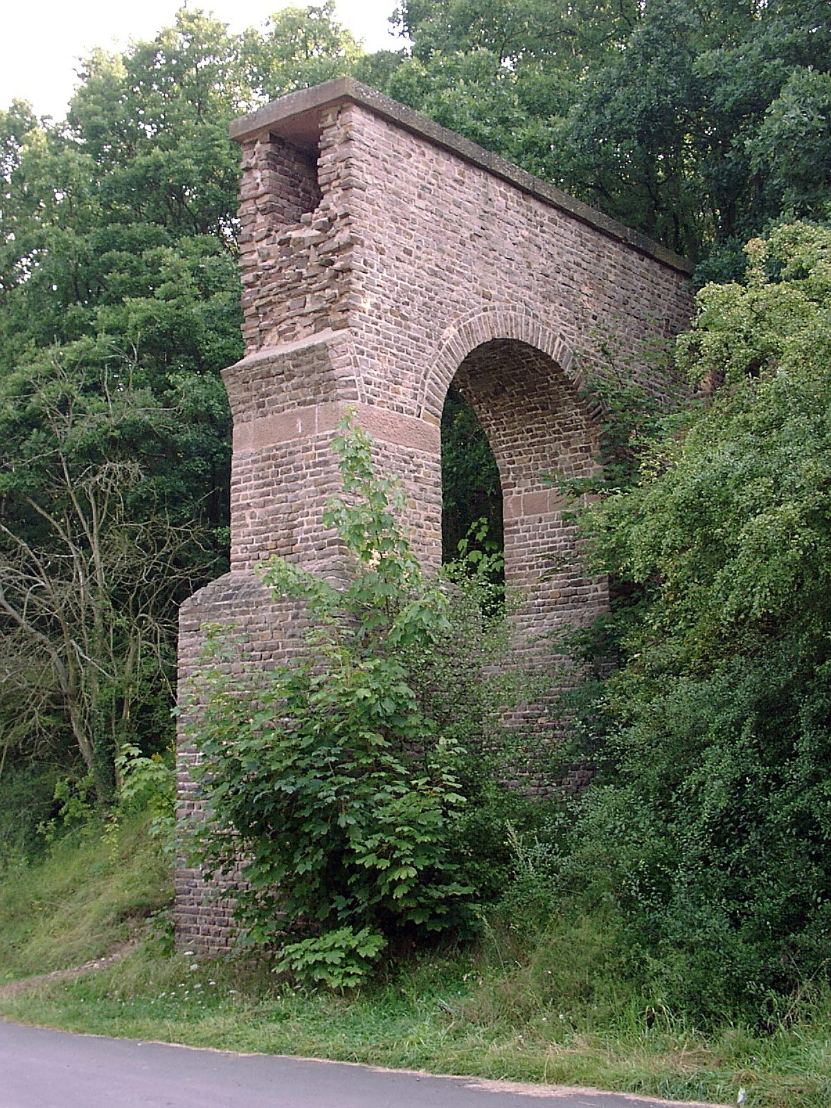 Reconstructed Roman Eifel aqueduct near Mechernich, Germany